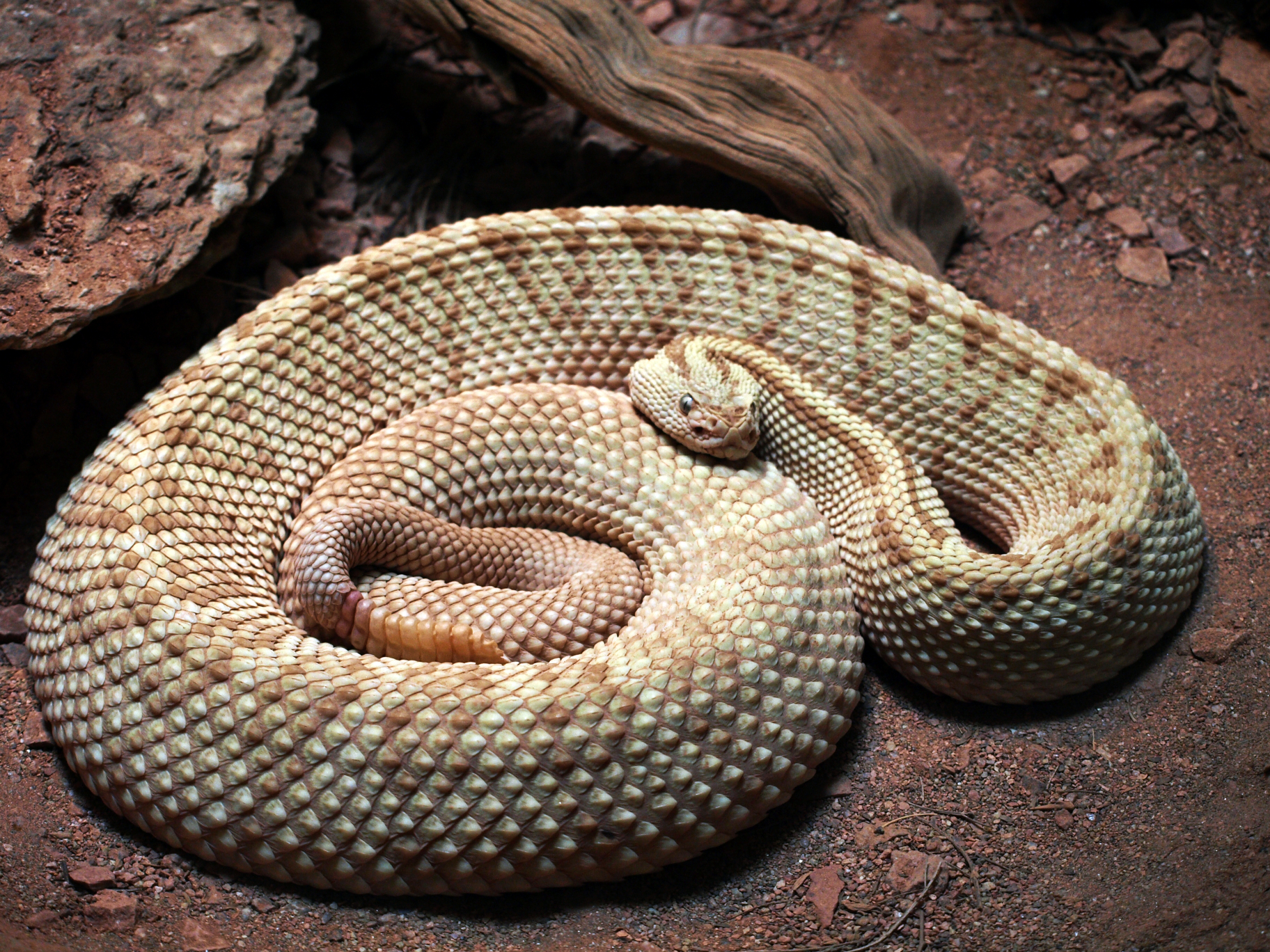 Crotalus simus tzabcan at San Diego Zoo, San Diego, California, USA. (Identification by Aaron Corbit at Encyclopedia of Life.)